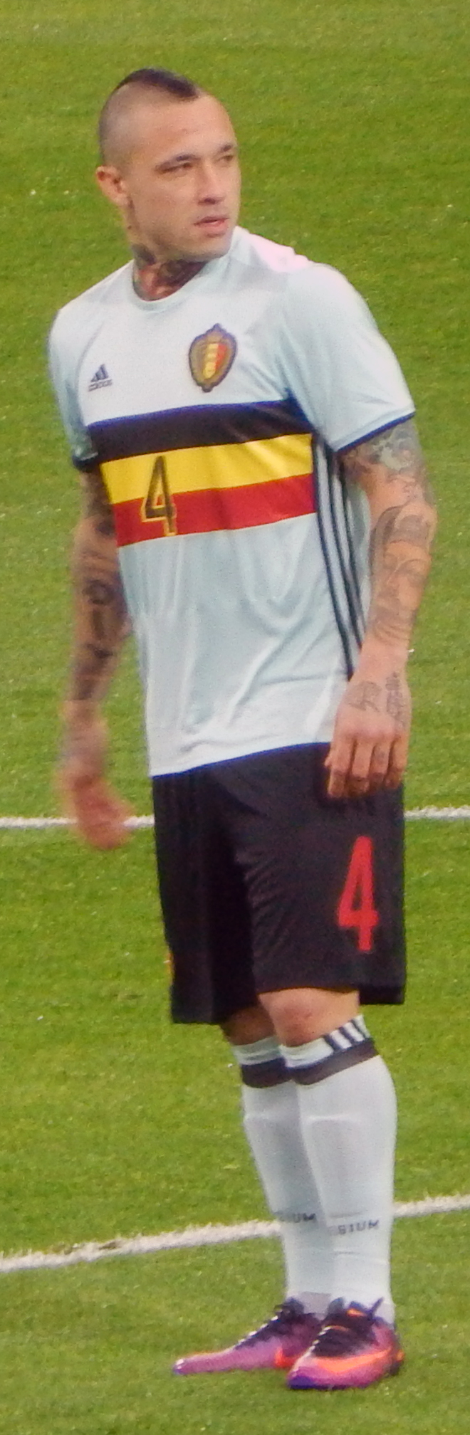 This photo was taken on March 28, 2017 during the exhibition game between Russia and Belgium. That game was held in Adler (City of Sochi) at the Fisht stadium.